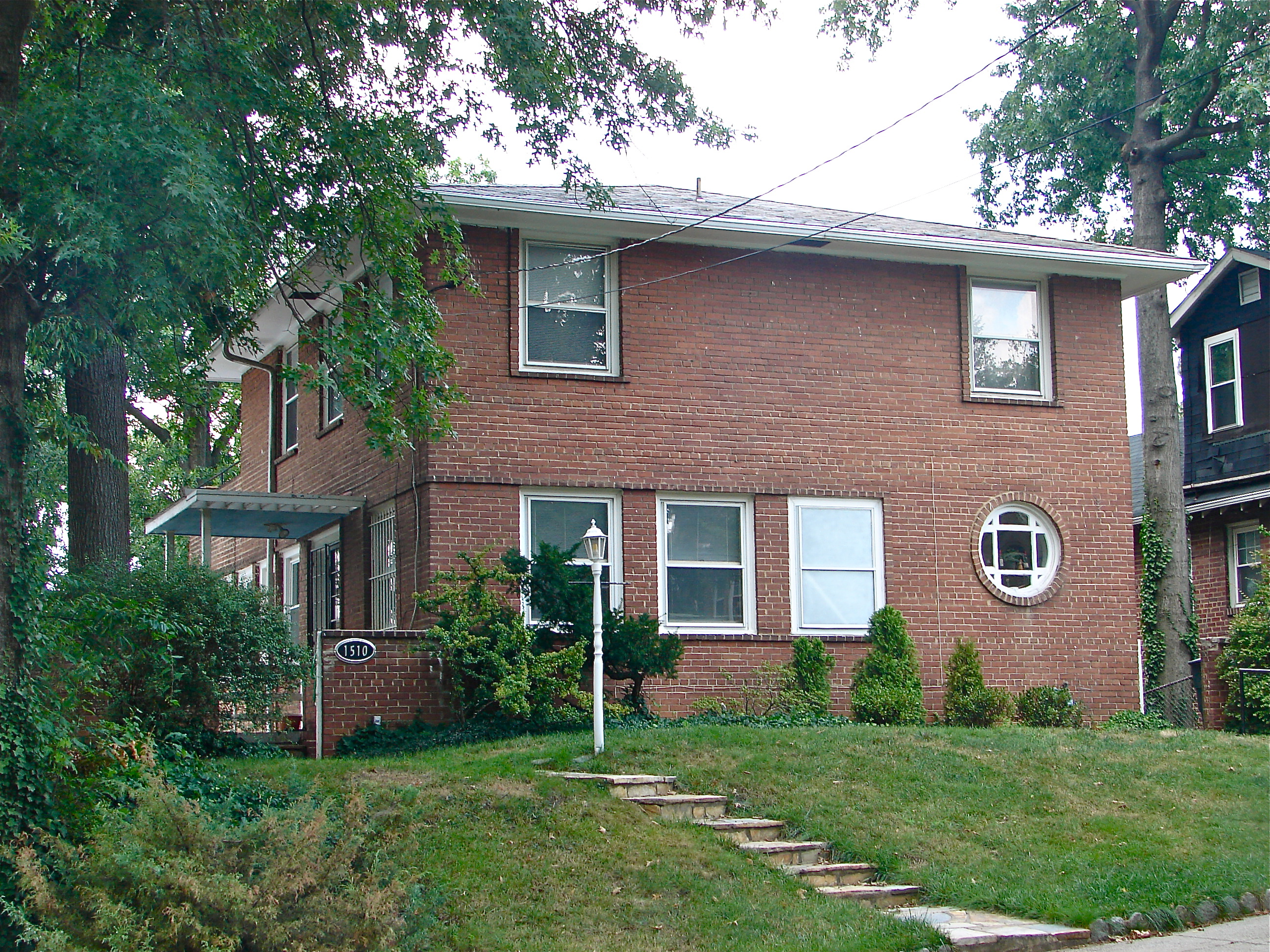 Ralph Bunche House on the NRHP since September 30, 1993, at 1510 Jackson St., NE., Washington, D.C. Home of the Nobel Peace Prize winner.